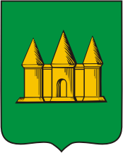 Mglin (Bryansk oblast), coat of arms (1782)